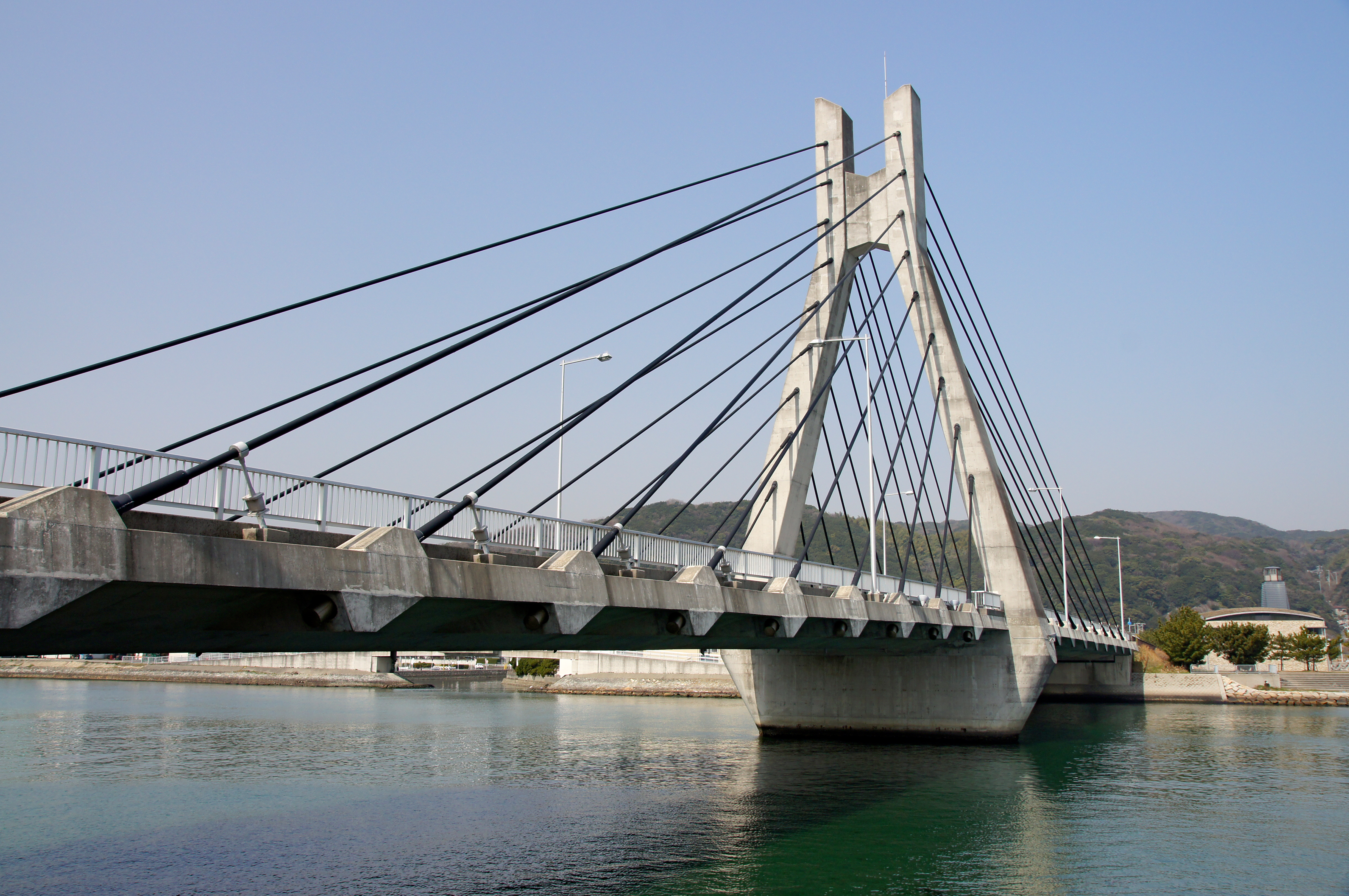 Suhama Bridge in Sumoto, Hyogo prefecture, Japan.